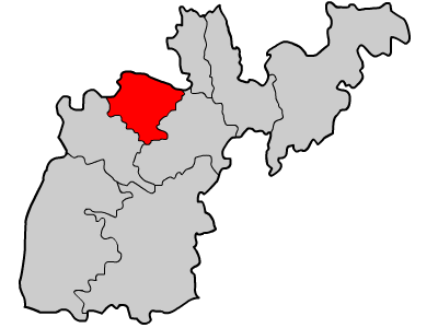 Peterhof Selo Uezd on the map of Saint Petersburg governorate